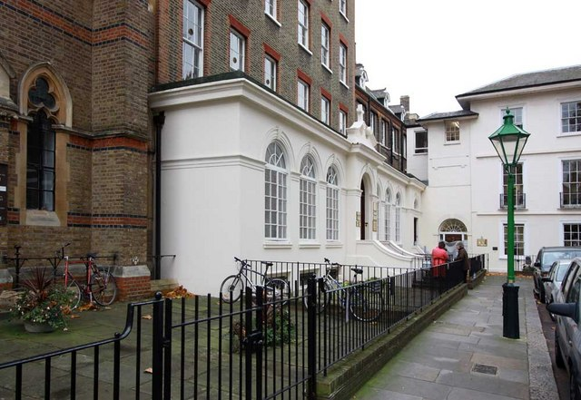 Convent of the Assumption, Kensington Square, London W8